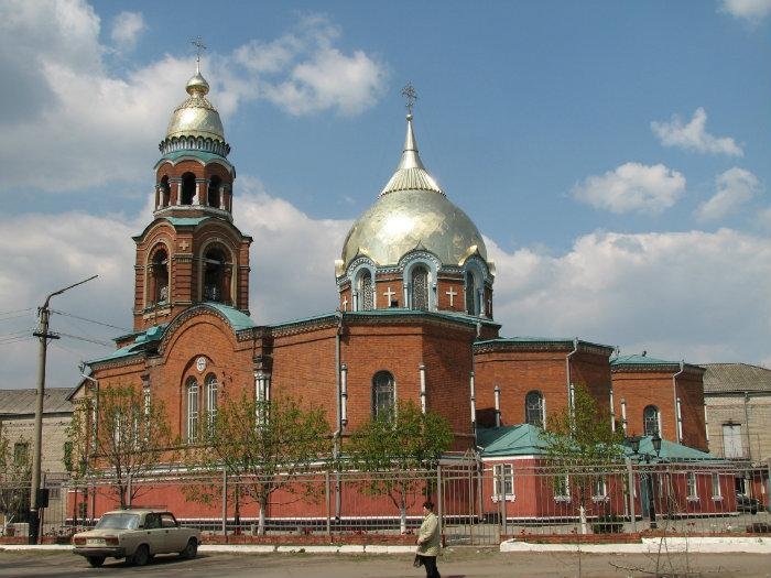 Saint Alexander Nevsky Church in Sloviansk, Donetsk Oblast, Ukraine